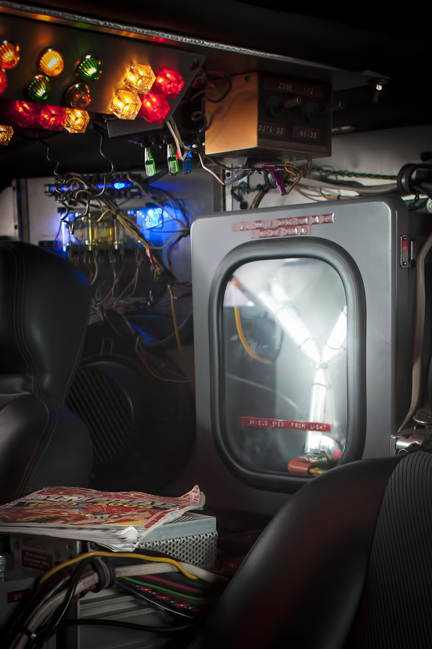 Back to the Future DeLorean Time Machine